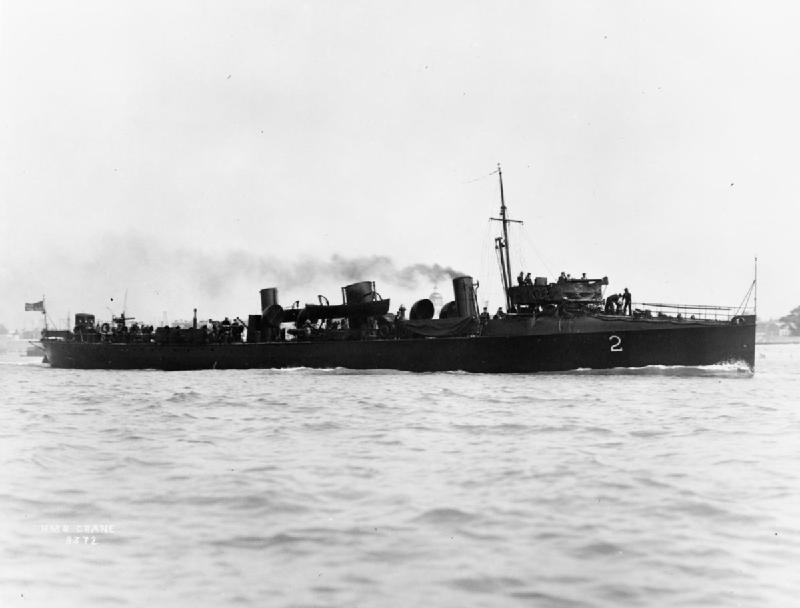 Photograph of British torpedo boat destroyer HMS Crane.